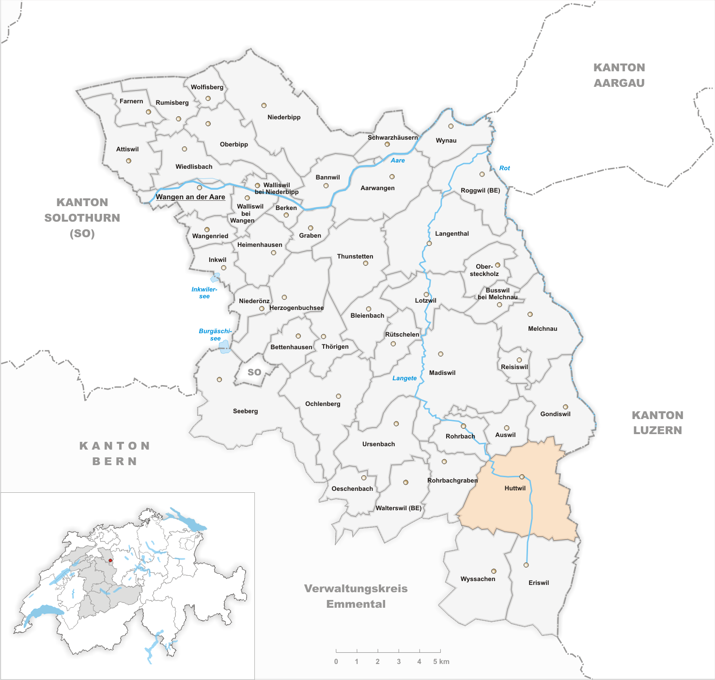 Municipality Huttwil